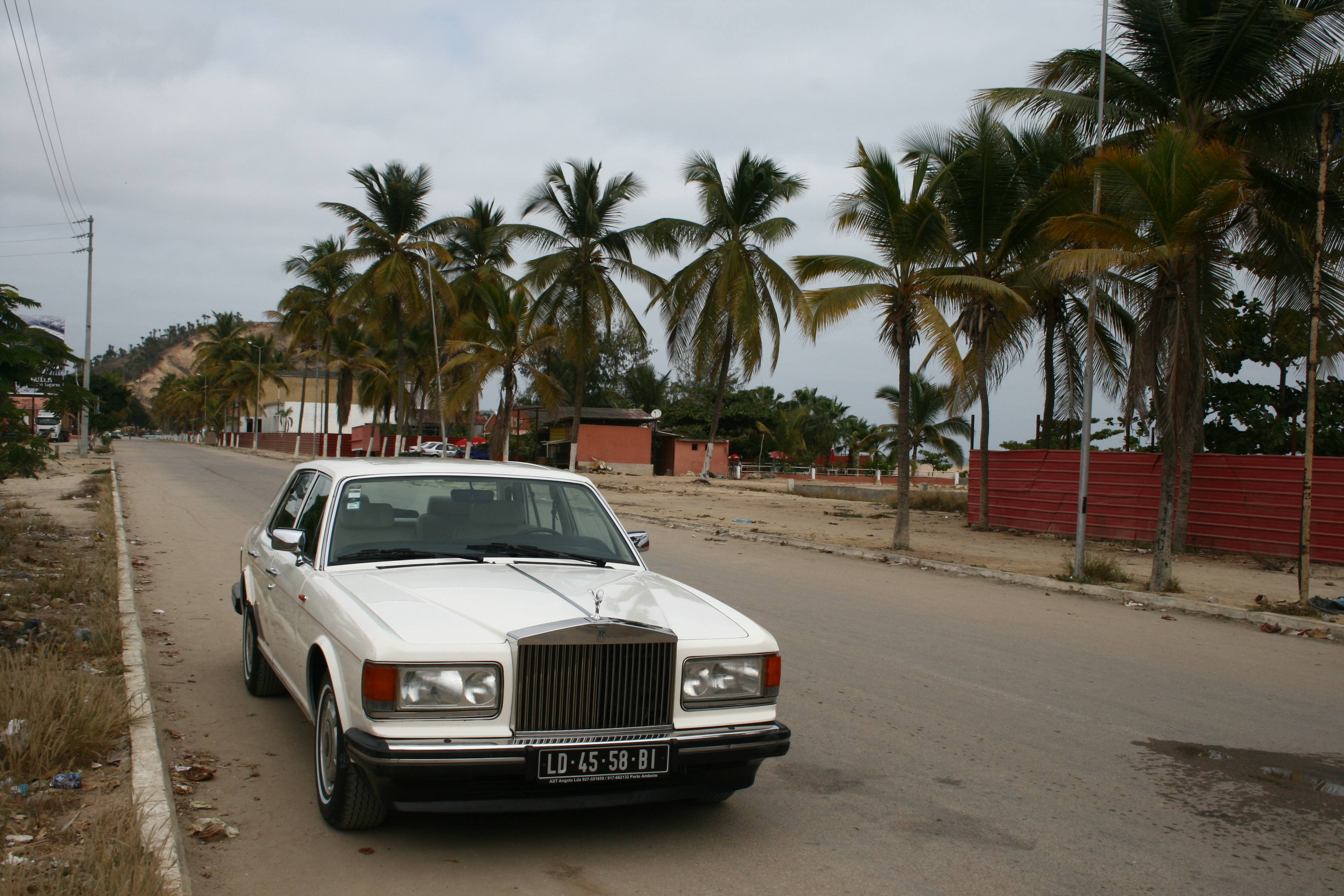 Rolls Royce car parked in Porto Amboim, Angola